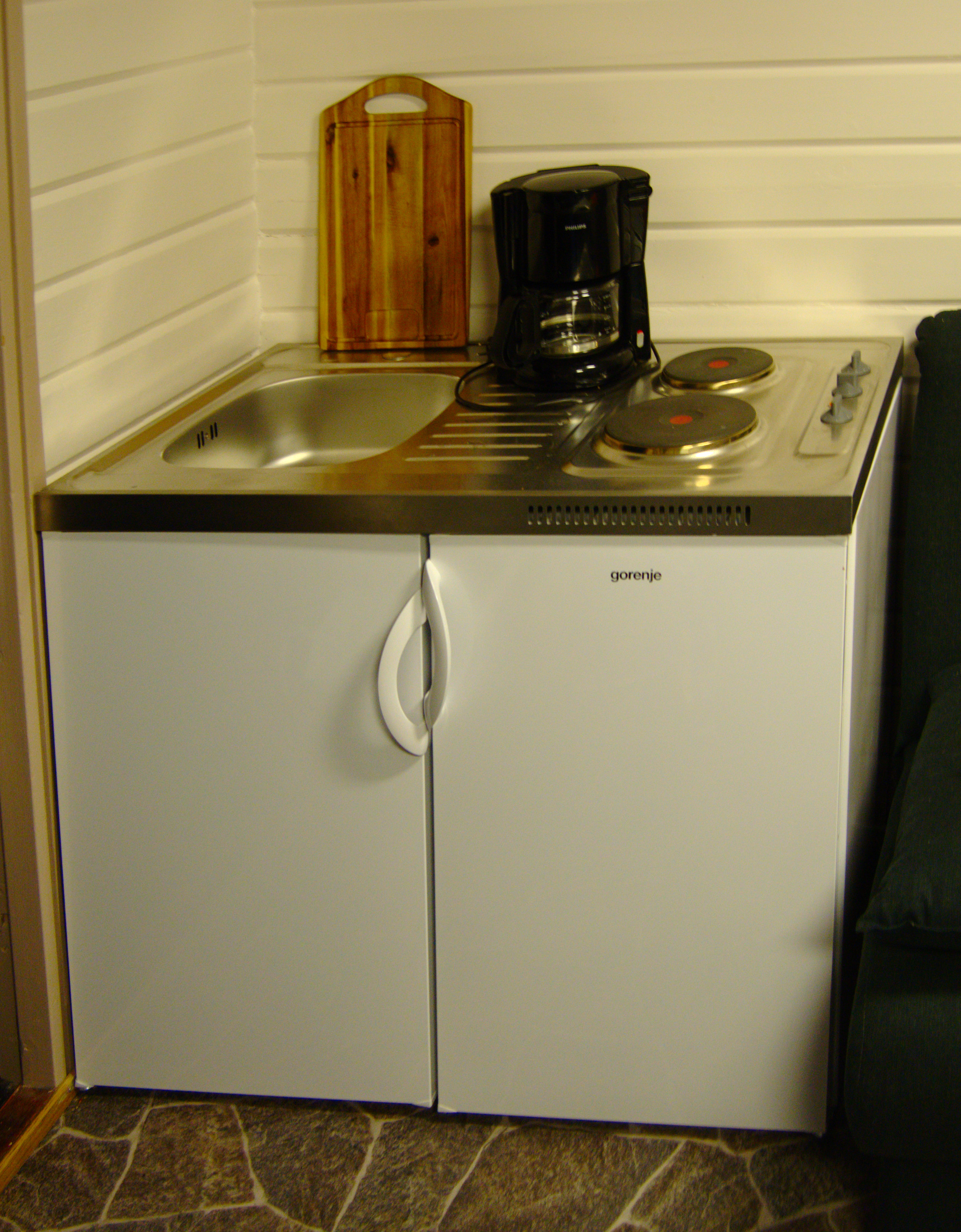 A typical German Kitchenette equipment aka "Pantryküche". Kitcen Sink, stove and fridge in one piece. The missing water tap is untypical though.